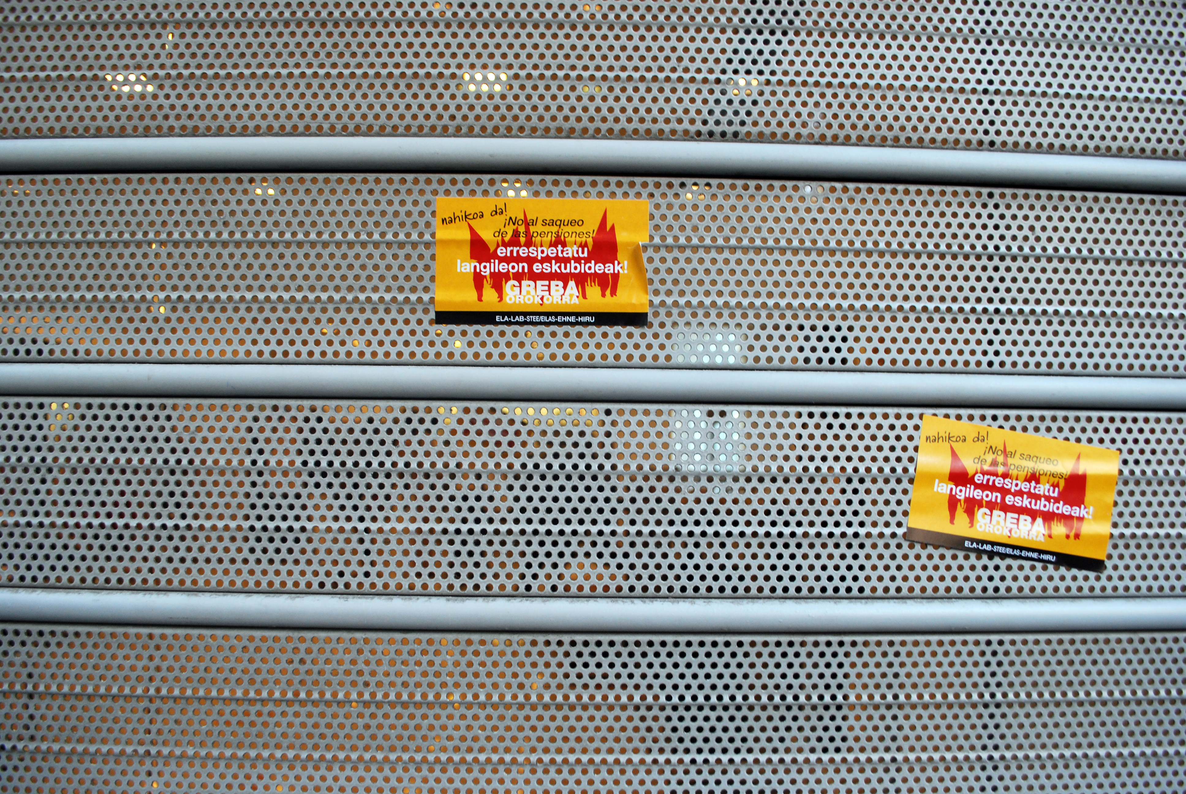 Zara shop closed during General Strike on 2011 January 27th in Donostia, Basque Country.